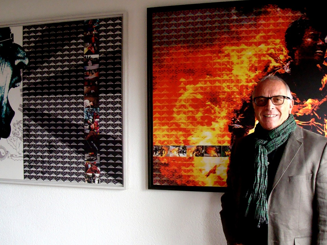 Theo Hues, Tibetan Disaster, 2013